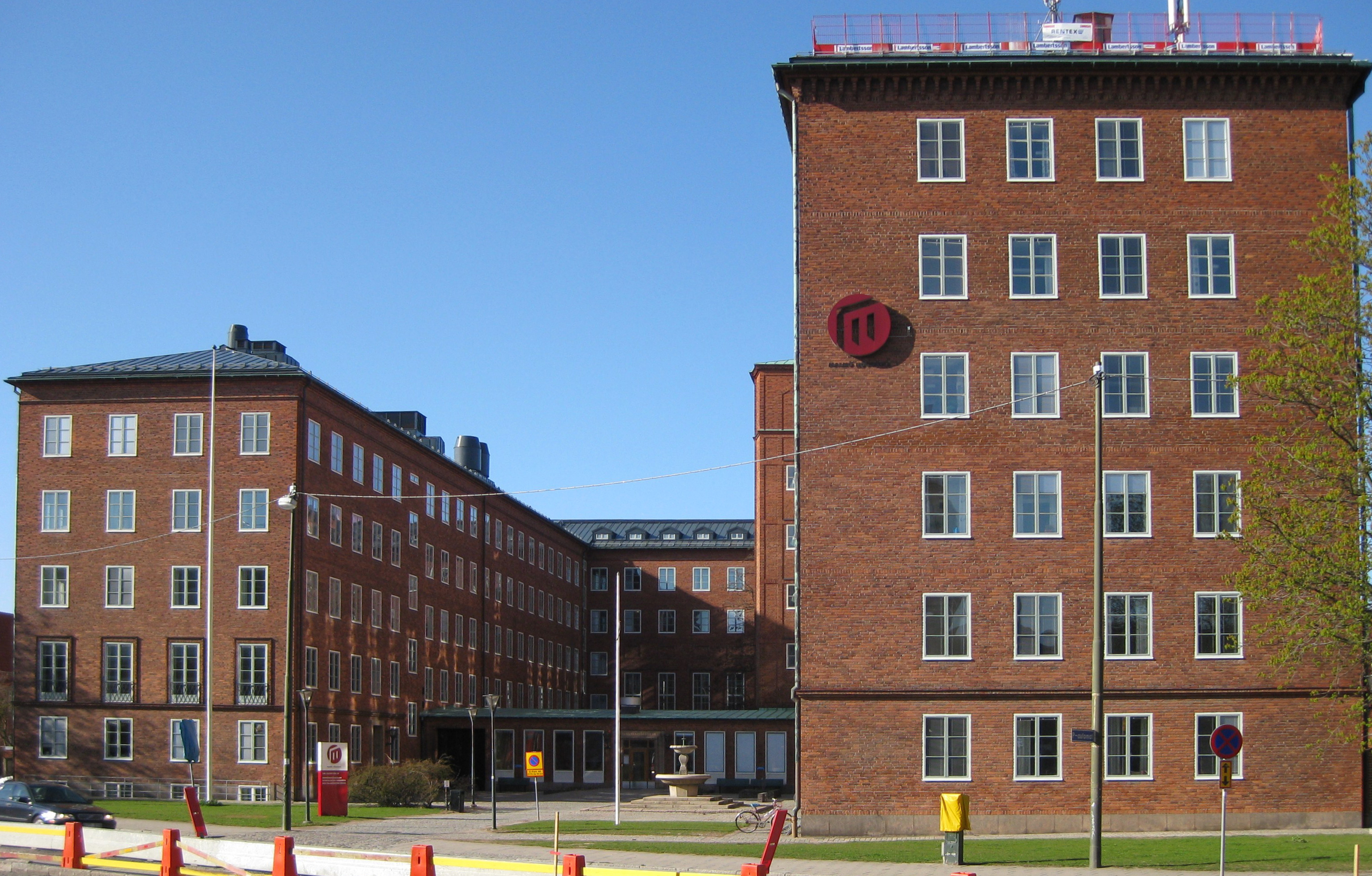 Malmö högskola, dental education